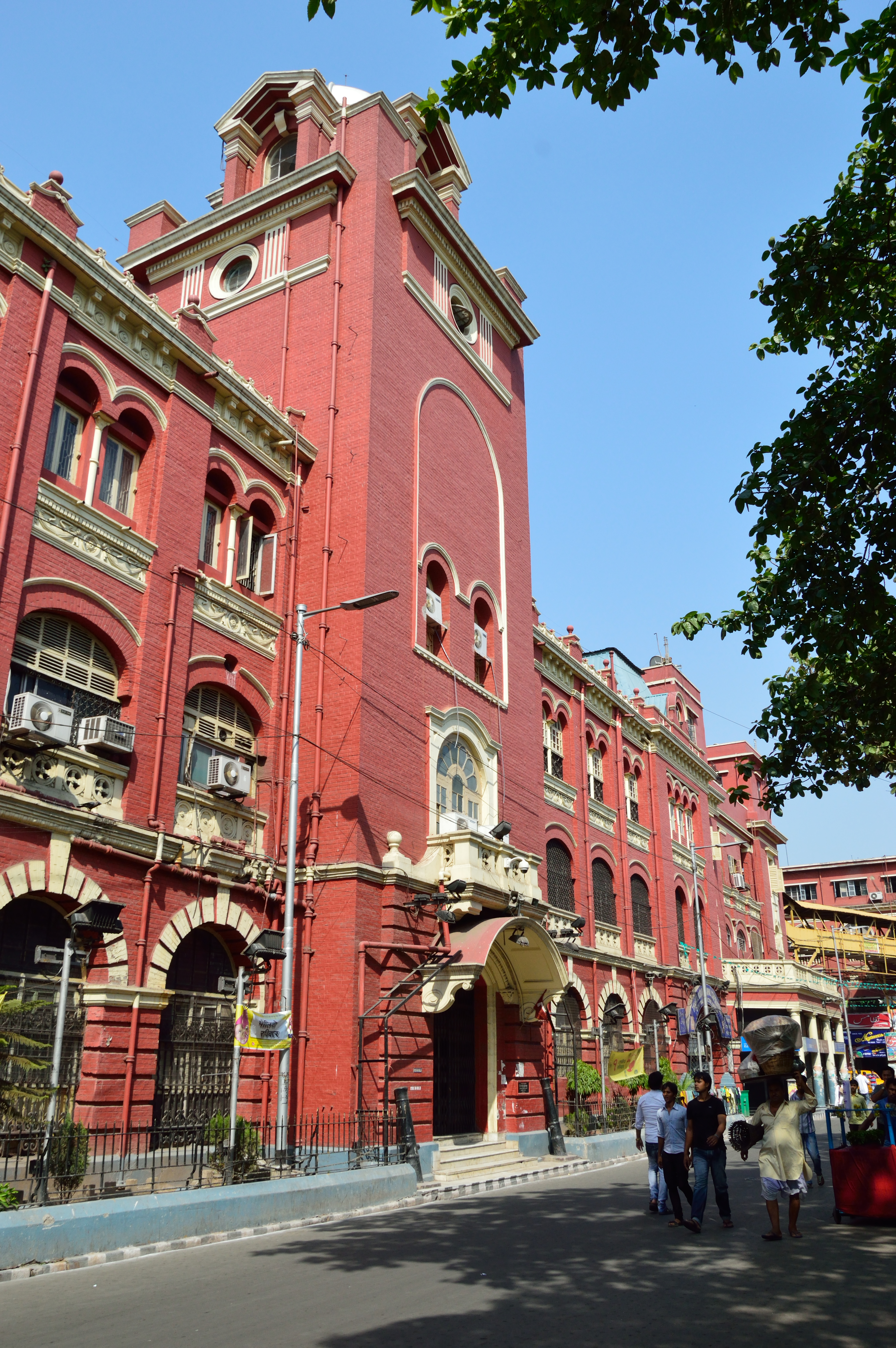 Photographed in greater Kolkata.